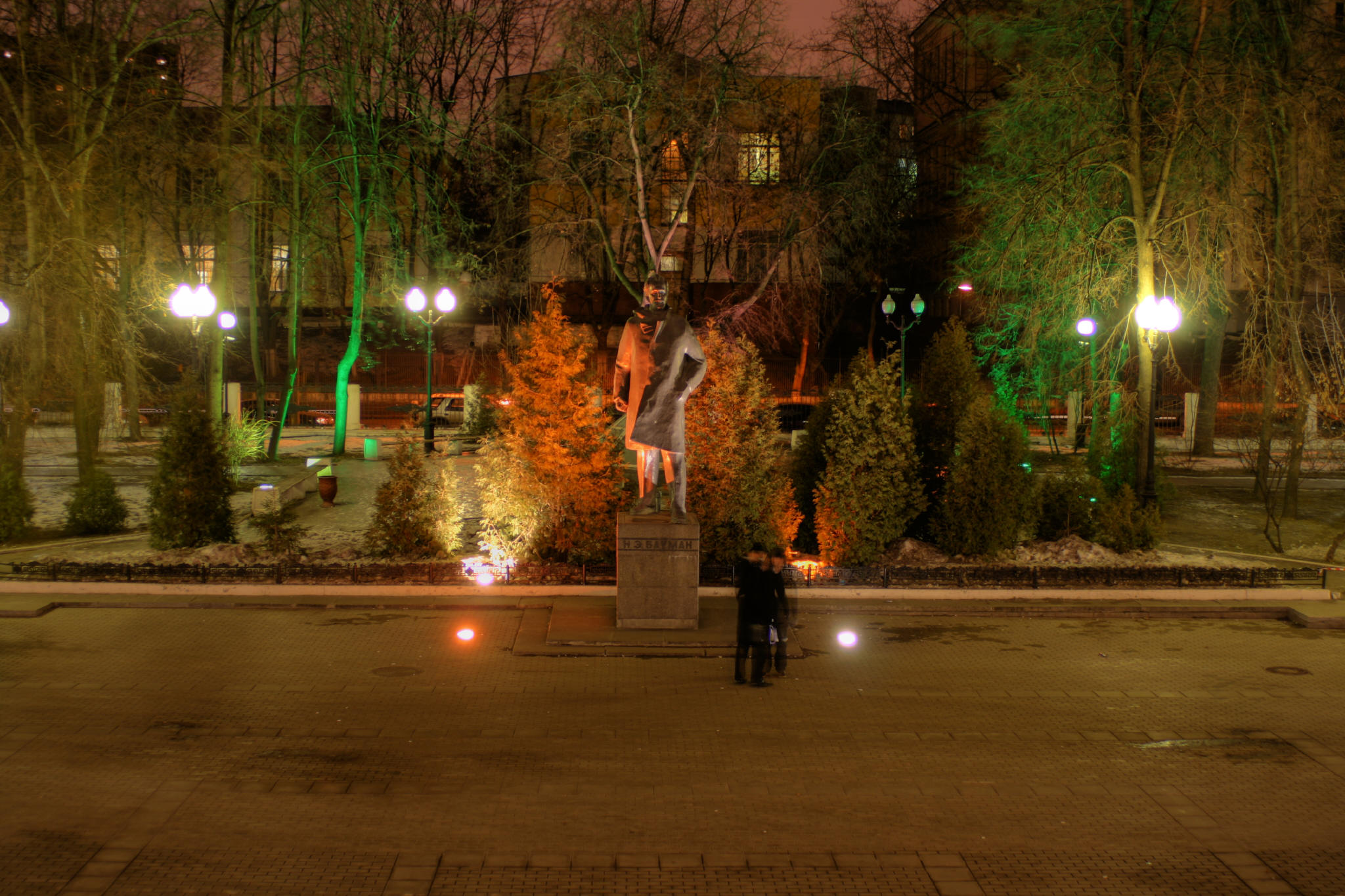 courtyard of Bauman Moscow State Technical University main building with Nikolay Bauman statue